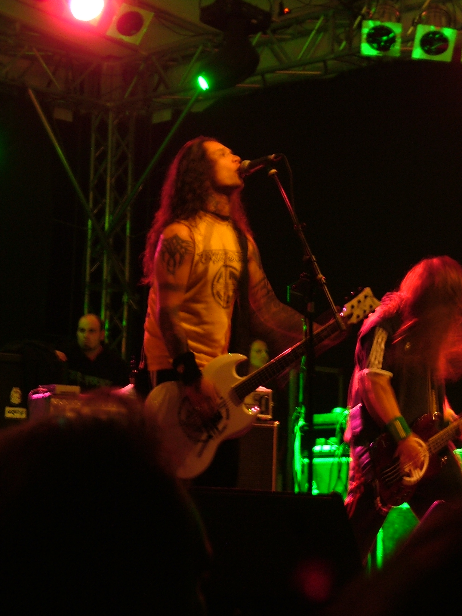 Hungarian thrash metal band Ektomorf at 'Rock the Lake' in Finkenstein am Faaker See